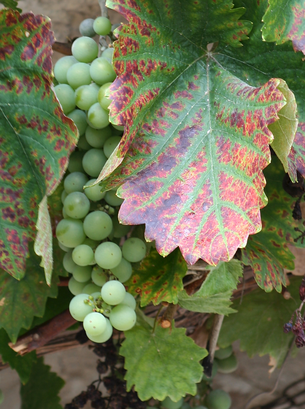 Vineyard Grapes Najac France